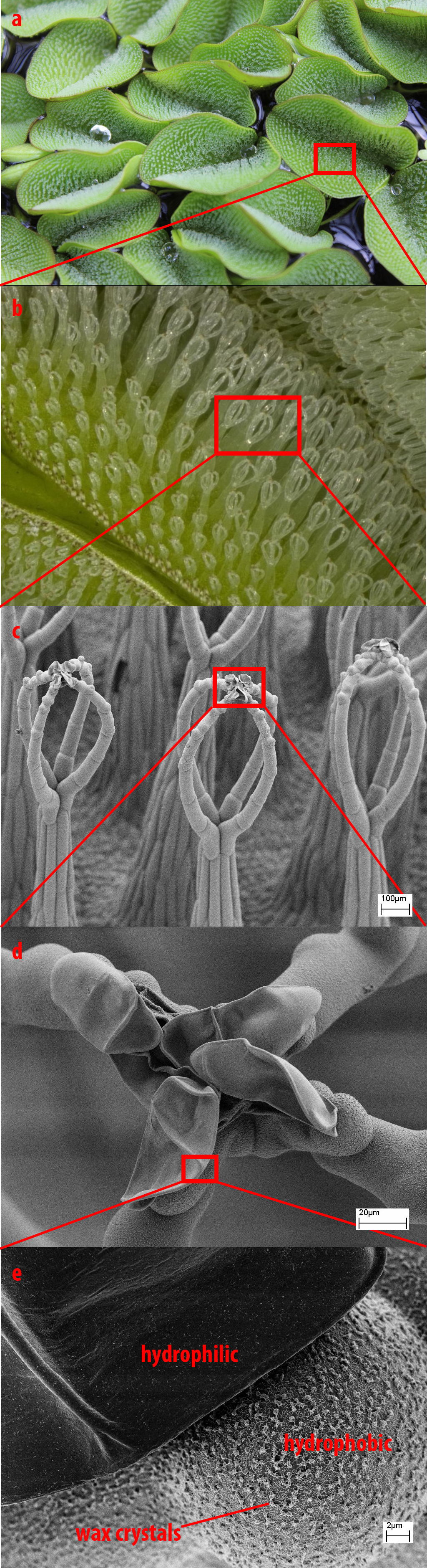 Pictures of Salvinia molesta of different magnifications. In the SEM picture d) the wax crystals and the wax free cells at the hair tips are visible.